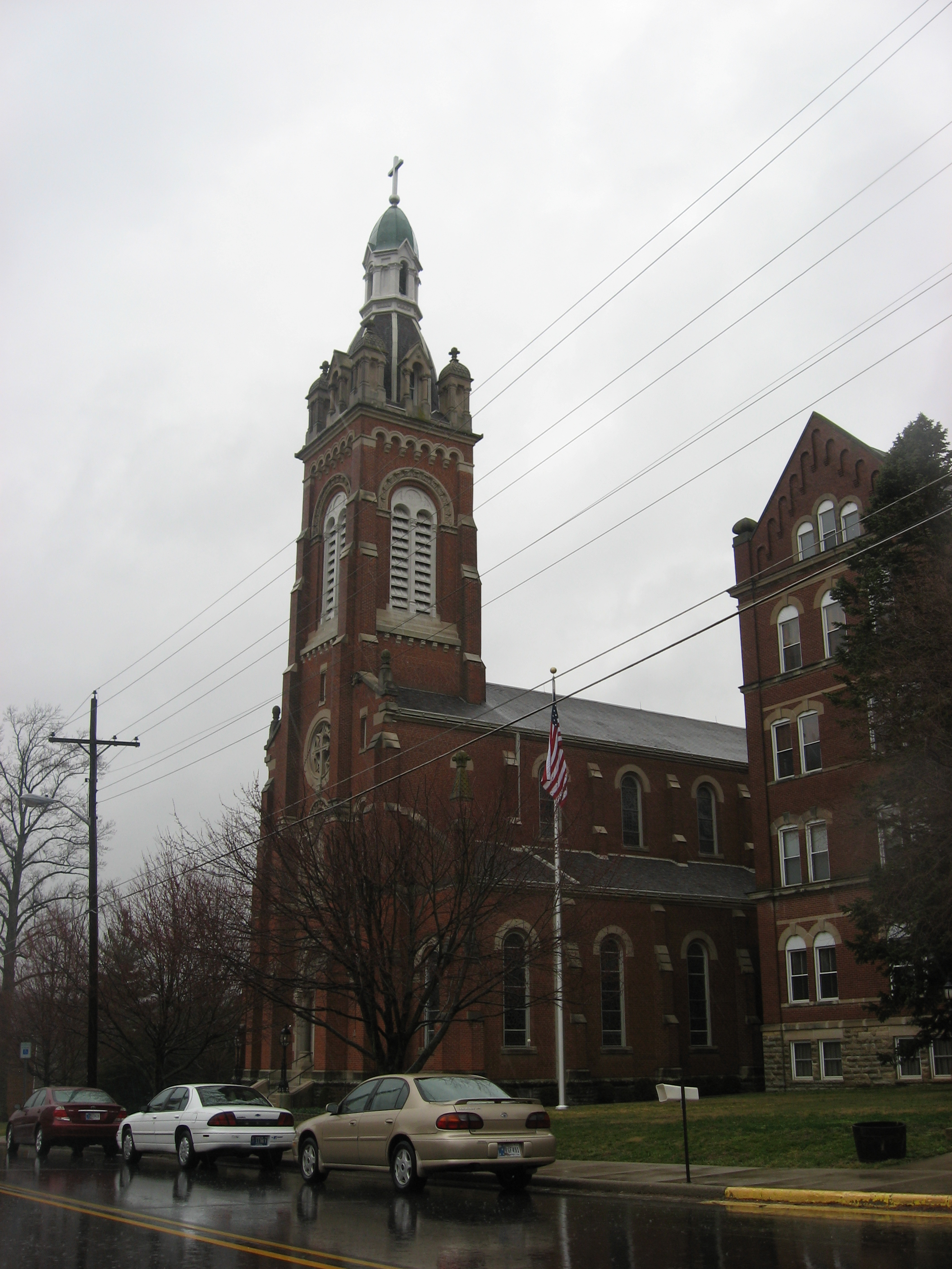 Chapel of the Convent of the Sisters of Saint Francis, located along Hauptstraße (State Road 229) at the Perlen Straße junction in Oldenburg, Indiana, United States. Built in 1901, it is part of the Oldenburg Historic District, a historic district that is listed on the National Register of Historic Places.